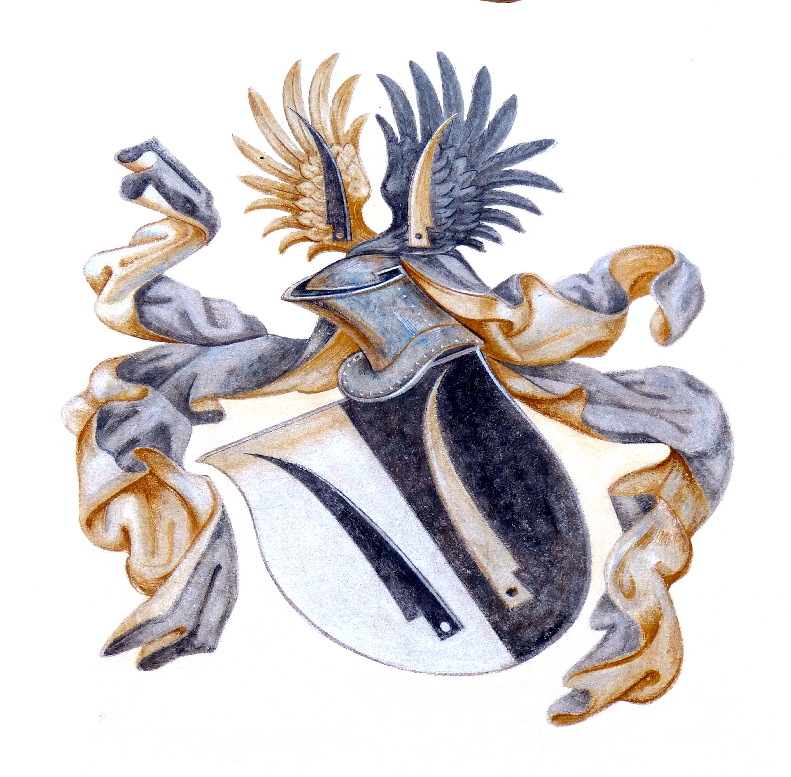 Gmunden ( Upper Austria ). Landschloss Ort - Inner courtyard: Coats of arms of former owners of the castle - Coats of arms of Jörger family.